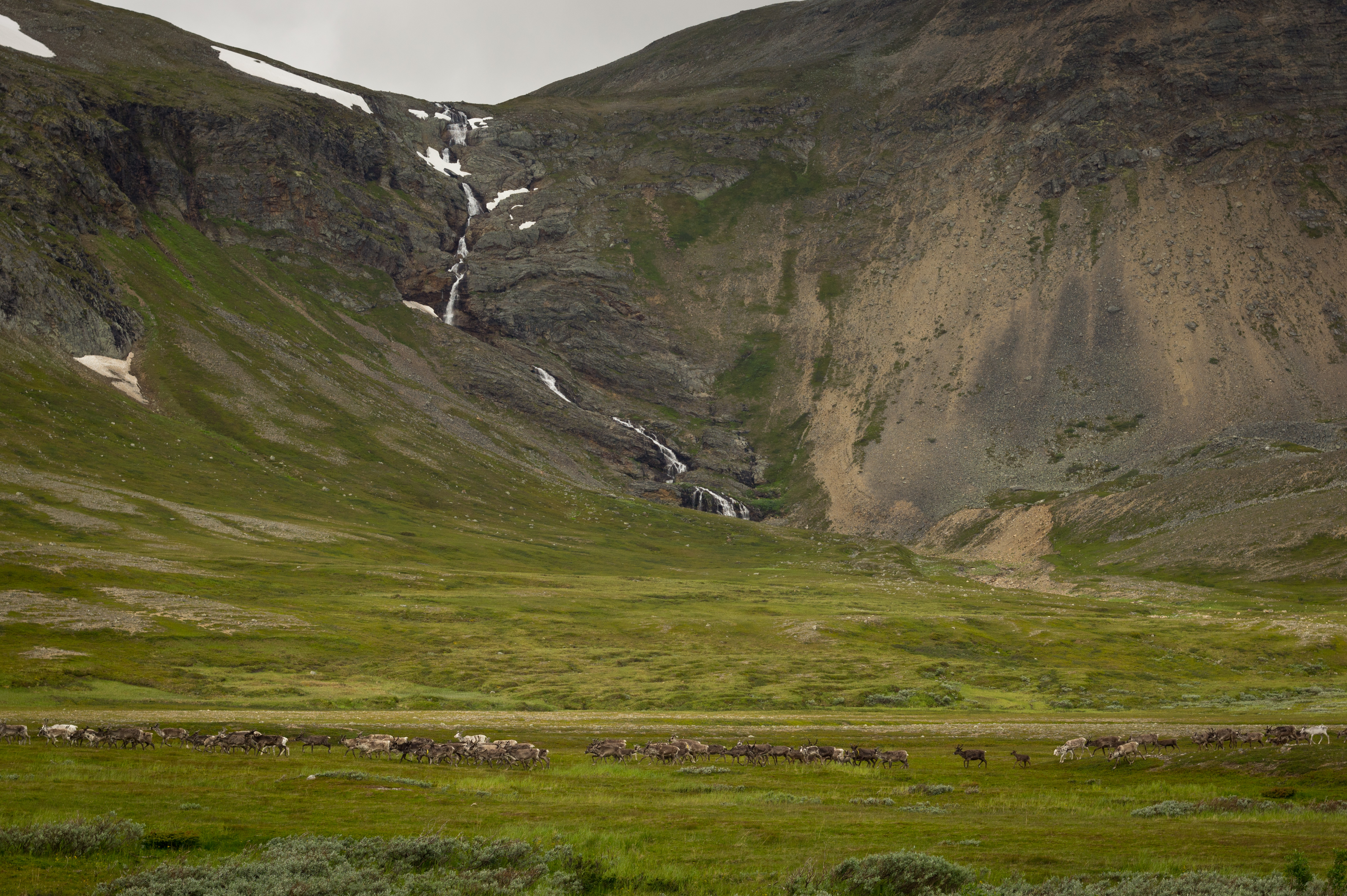 Herd of reindeer beneath a waterfall